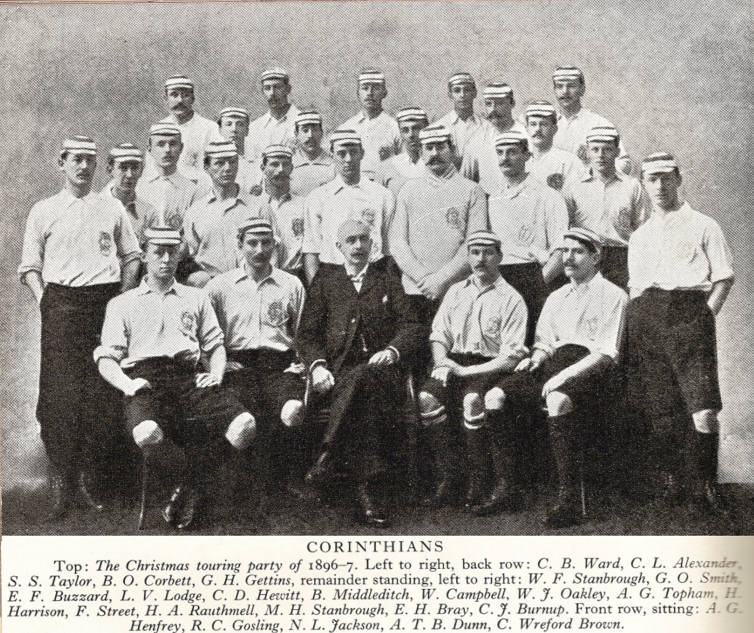 Photograph of Corinthian F.C., a defunct English football team.